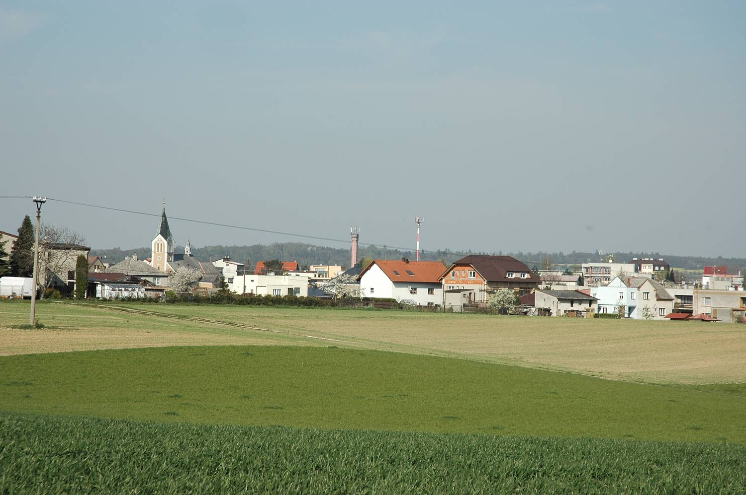 The central part of village Štěpánkovice, Czech Republic